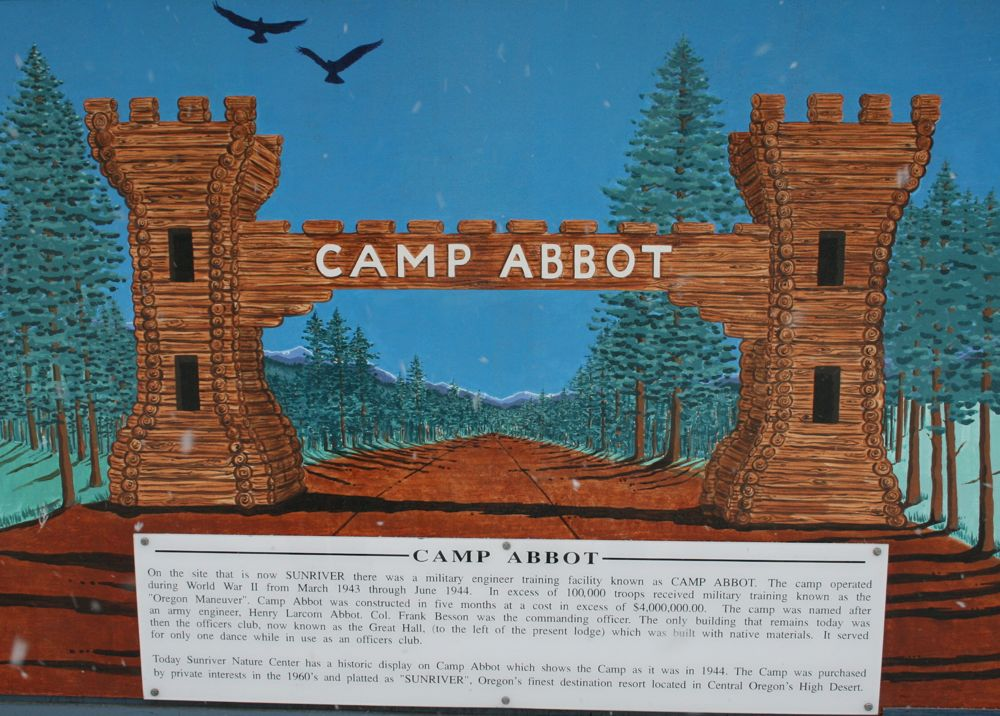 Camp Abbot interpretive sign at Sun River, Oregon